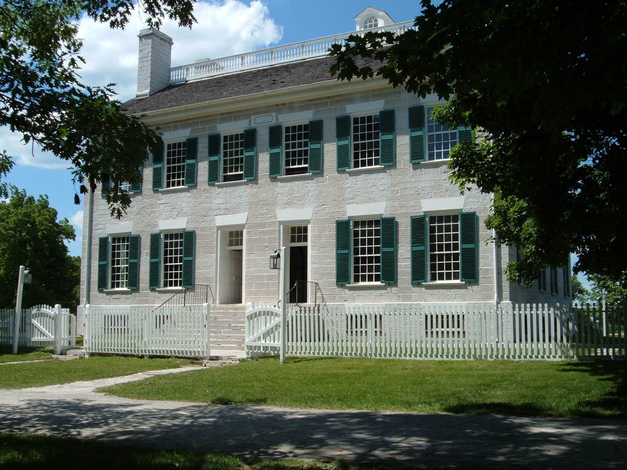 Photograph of Centre Family Dwelling at Shaker Village at Pleasant Hill, Kentucky, USA